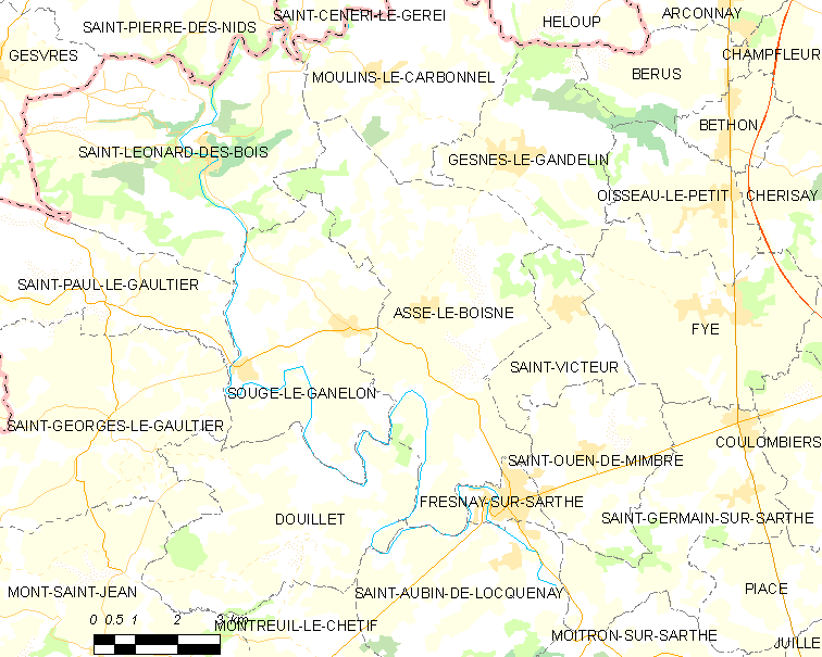 Map of French municipality